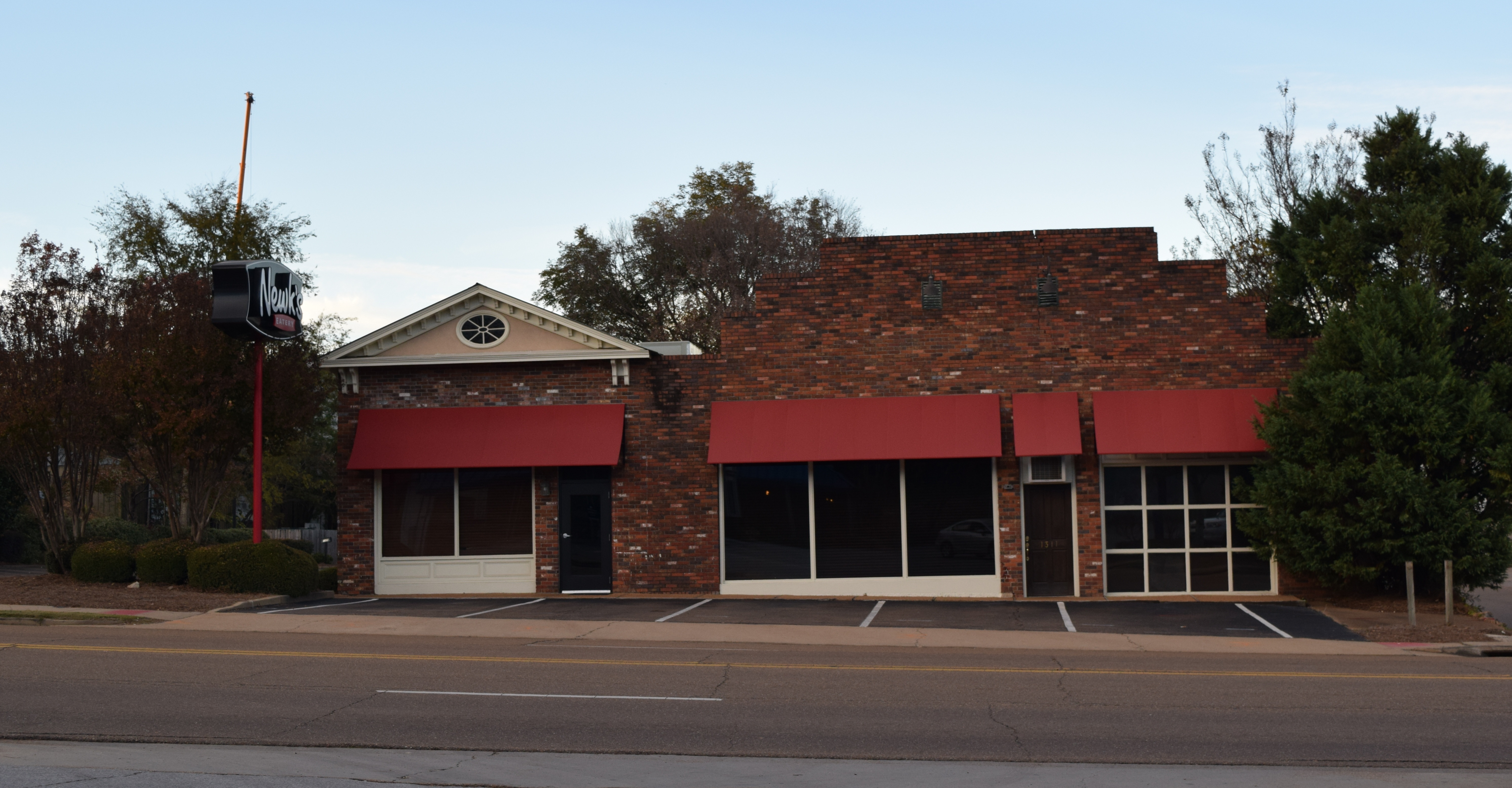 The original Newk's Eatery on University Avenue in Oxford, Mississippi